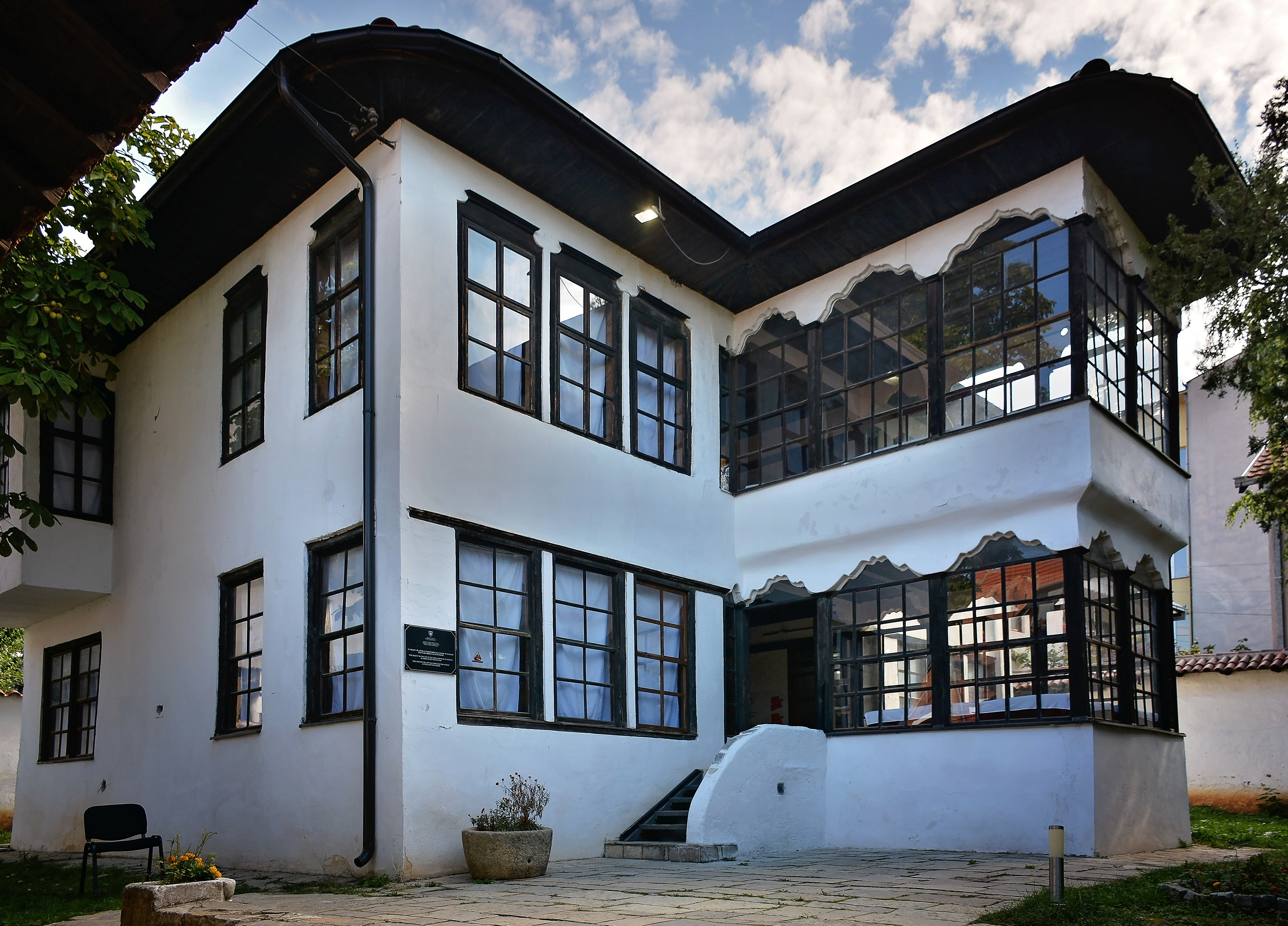 Ethnological Museum in Prishtina